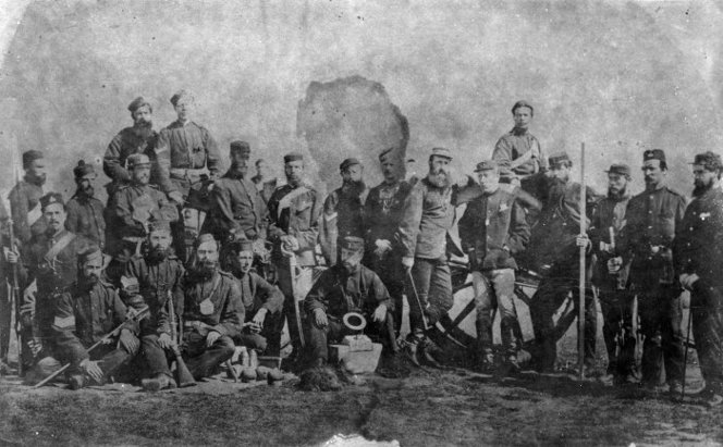 General Duncan Alexander Cameron with a group of soldiers of the Colonial Defence Force. Ref: 1/2-029252-F. Alexander Turnbull Library, Wellington, New Zealand. /records/23062638